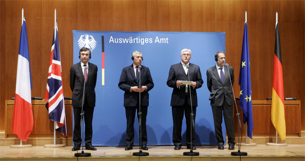 From left to right, the foreign ministers from France, Britain, and Germany (Philippe Douste-Blazy, Jack Straw, and Frank-Walter Steinmeier respectively), and Javier Solana, European Union foreign policy chief, briefed the media after a meeting in Berlin.